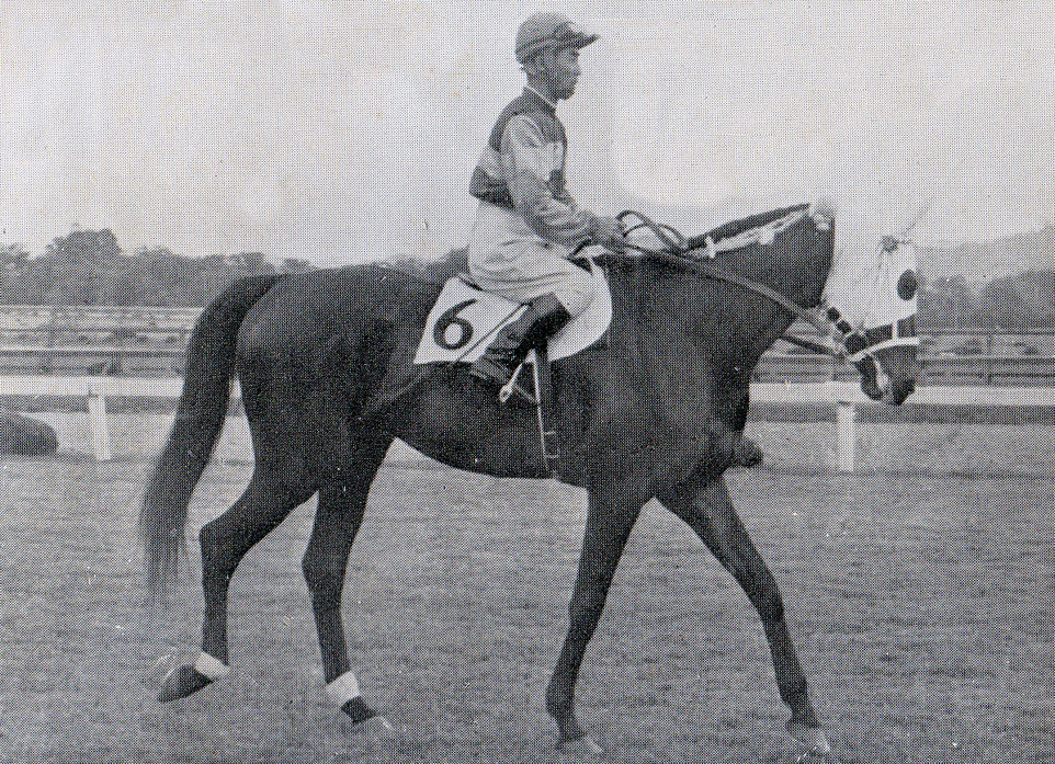 1959 satsuki sho(japanese 2000guineas) winner Wyldeal.